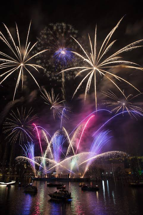 Navalis 2017